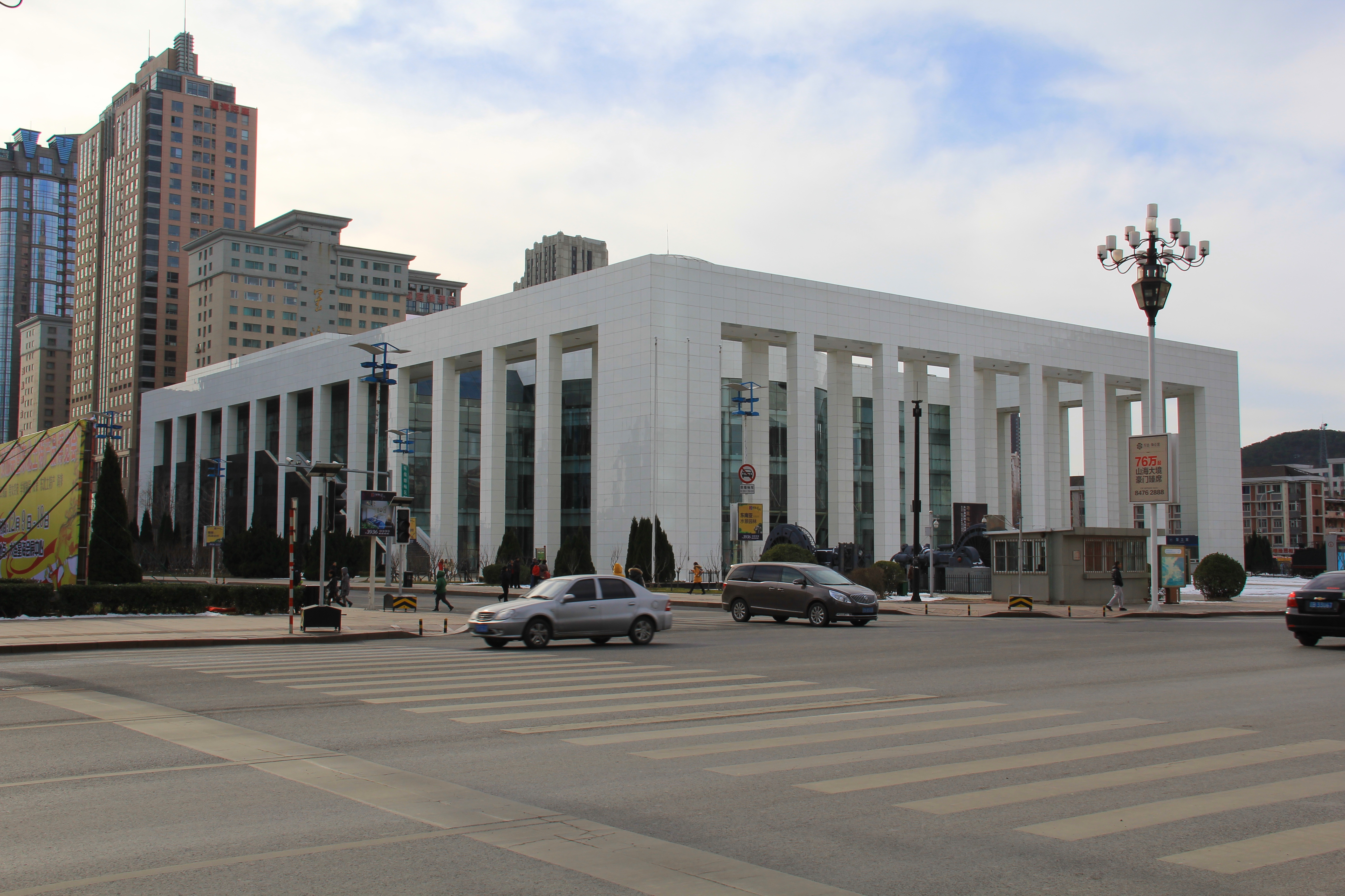 Dalian Modern History Museum, Dalian, China